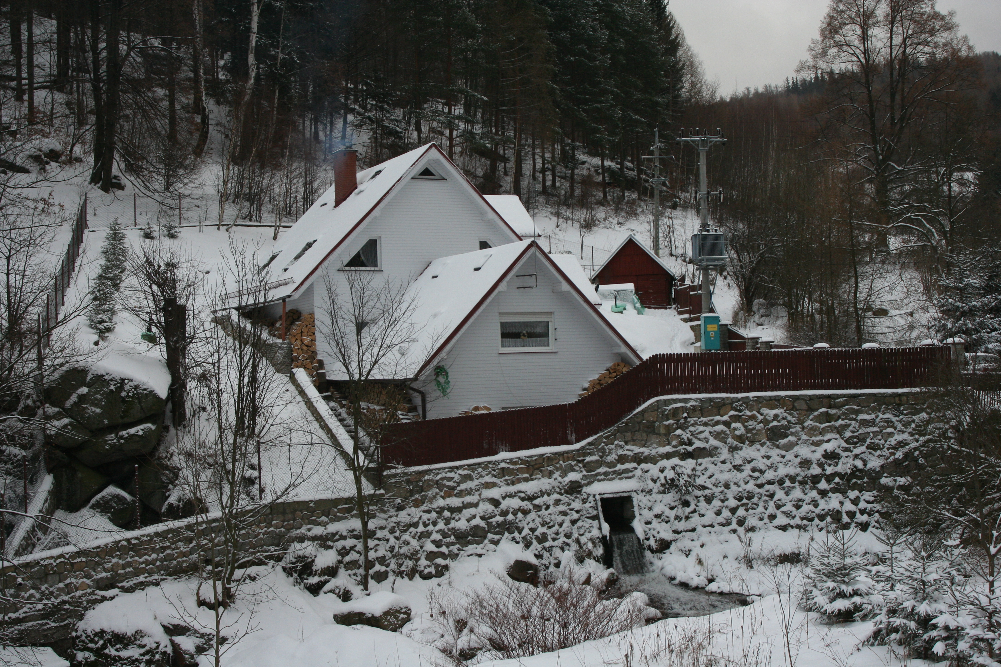 Small hydroelectric plant in Jagniątków, Jelenia Góra, Poland.